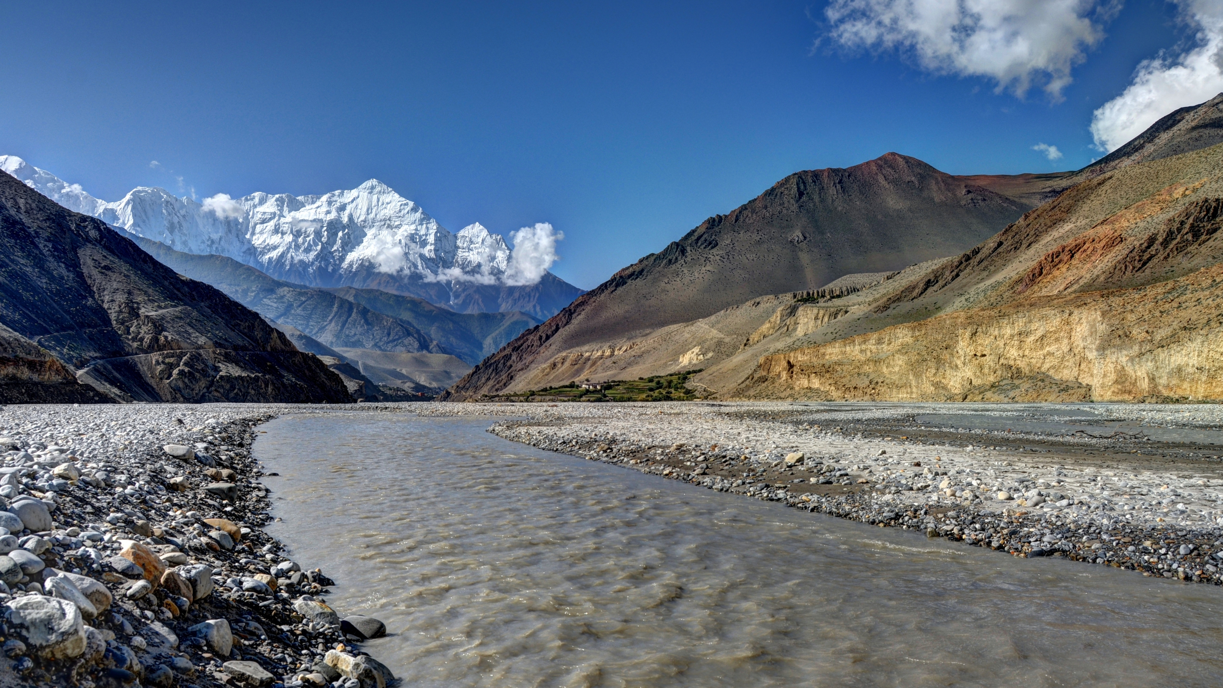 Looking south towards Kagbeni that is situated at a strategic place to control the former trade route. At the right lies the small hamlet of Tiri. Mountain is Nilgiri north face.